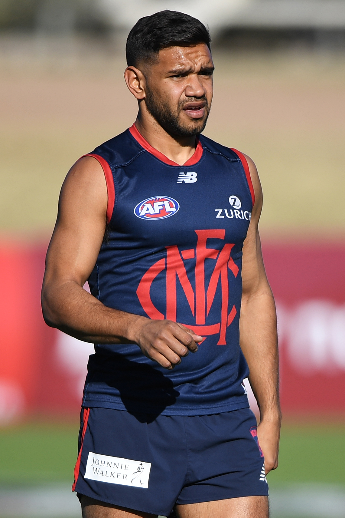 Neville Jetta of Melbourne during Melbourne training at Traeger Park on Saturday, 20 July 2019 in Alice Springs, Northern Territory.